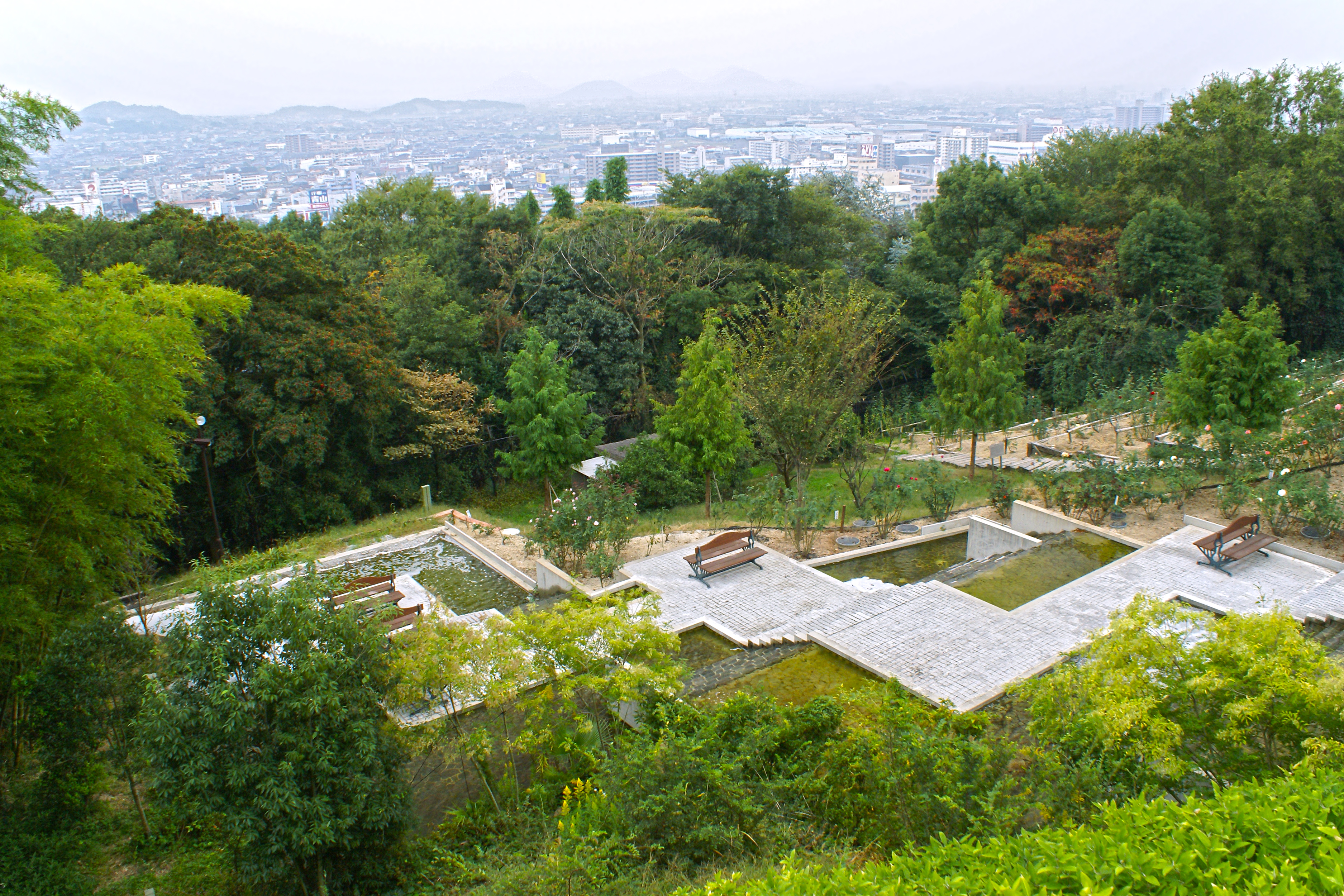 Shikokumura Gallery in Shikoku Mura, Takamatsu, Kagawa Prefecture, Japan